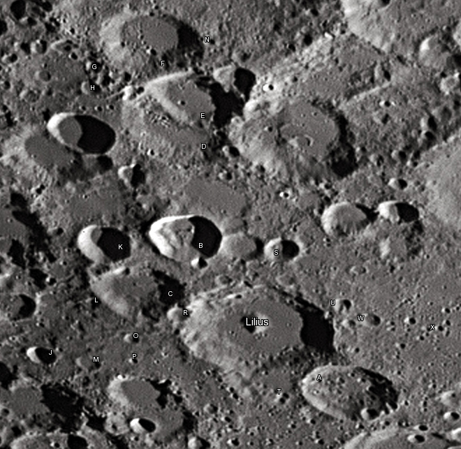 Lilius lunar crater as seen from Earth with satellite craters labeled